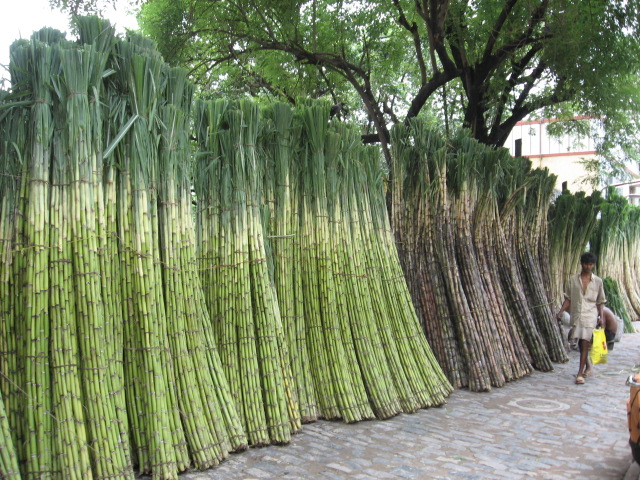 Own photograph